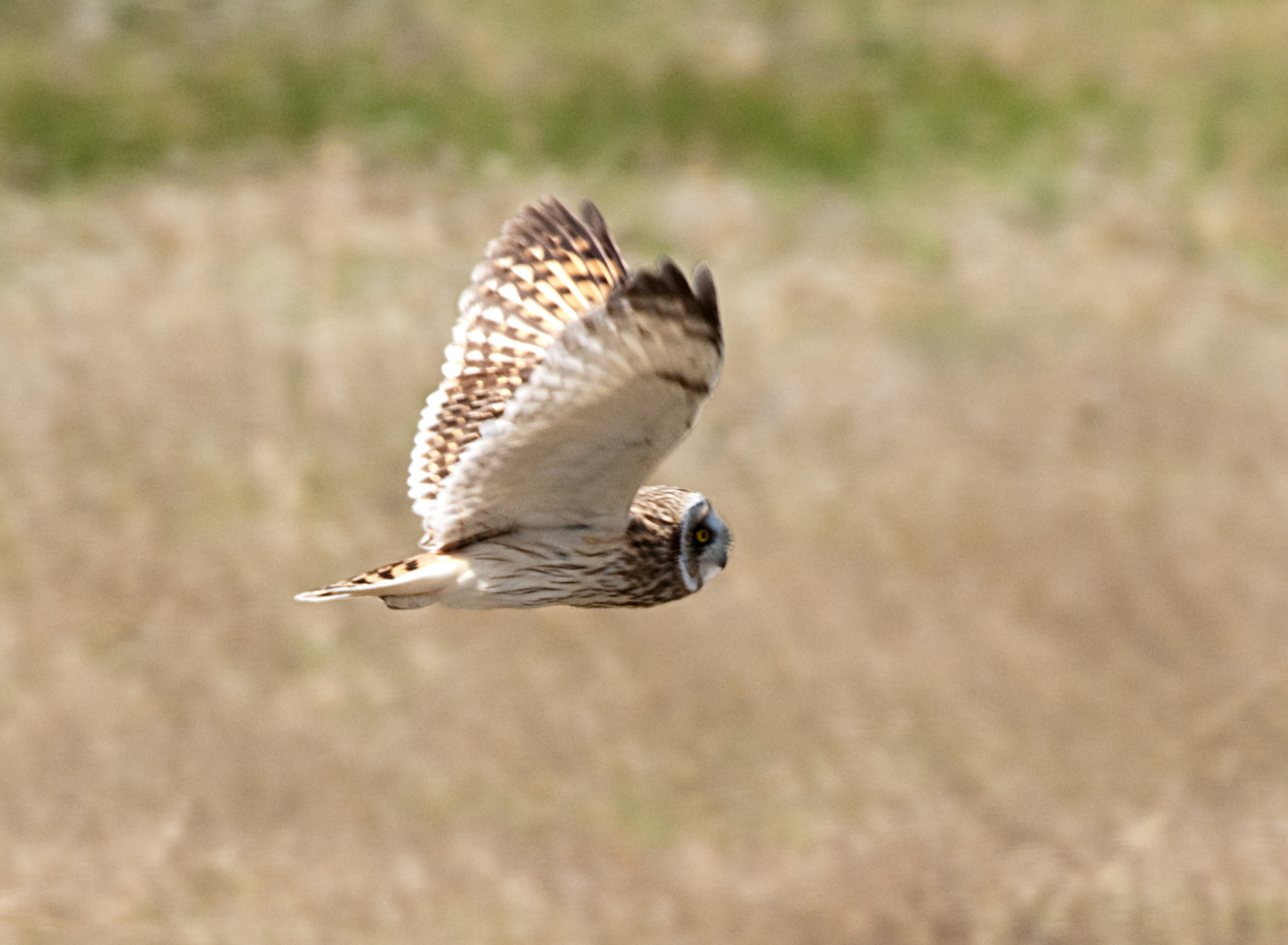 Short-eared Owl Asio flammeus. Ruh-red Road, Harney County, Oregon, USA.